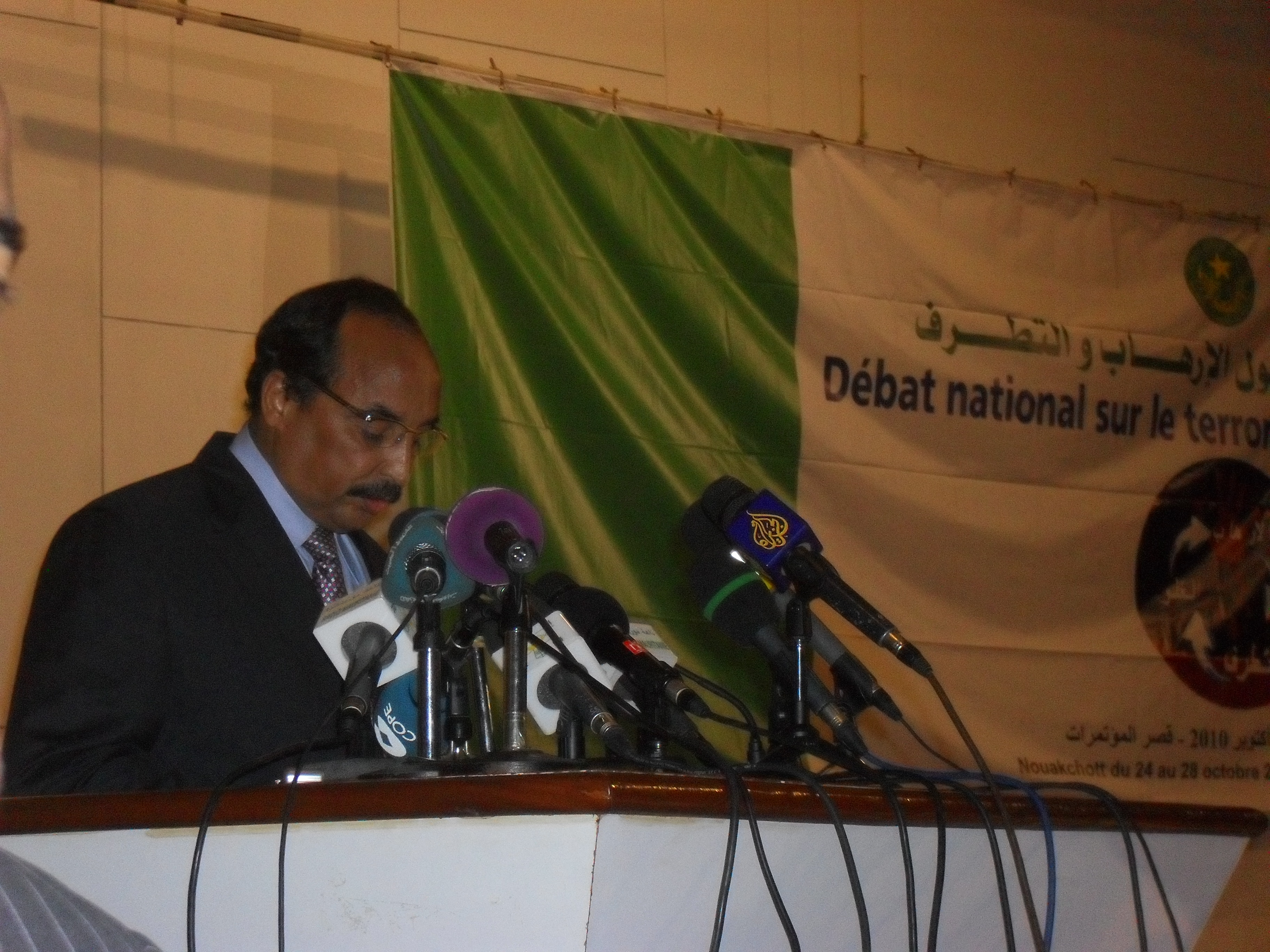 President of Mauritania Mohamed Ould Abdel Aziz.